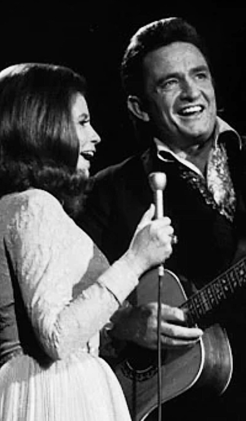 Trade ad for Johnny Cash's single "No Need To Worry". To better adapt it to his respective Wikipedia article, the ad was cropped and cleaned in a graphics editing program. The original can be viewed at the source below.